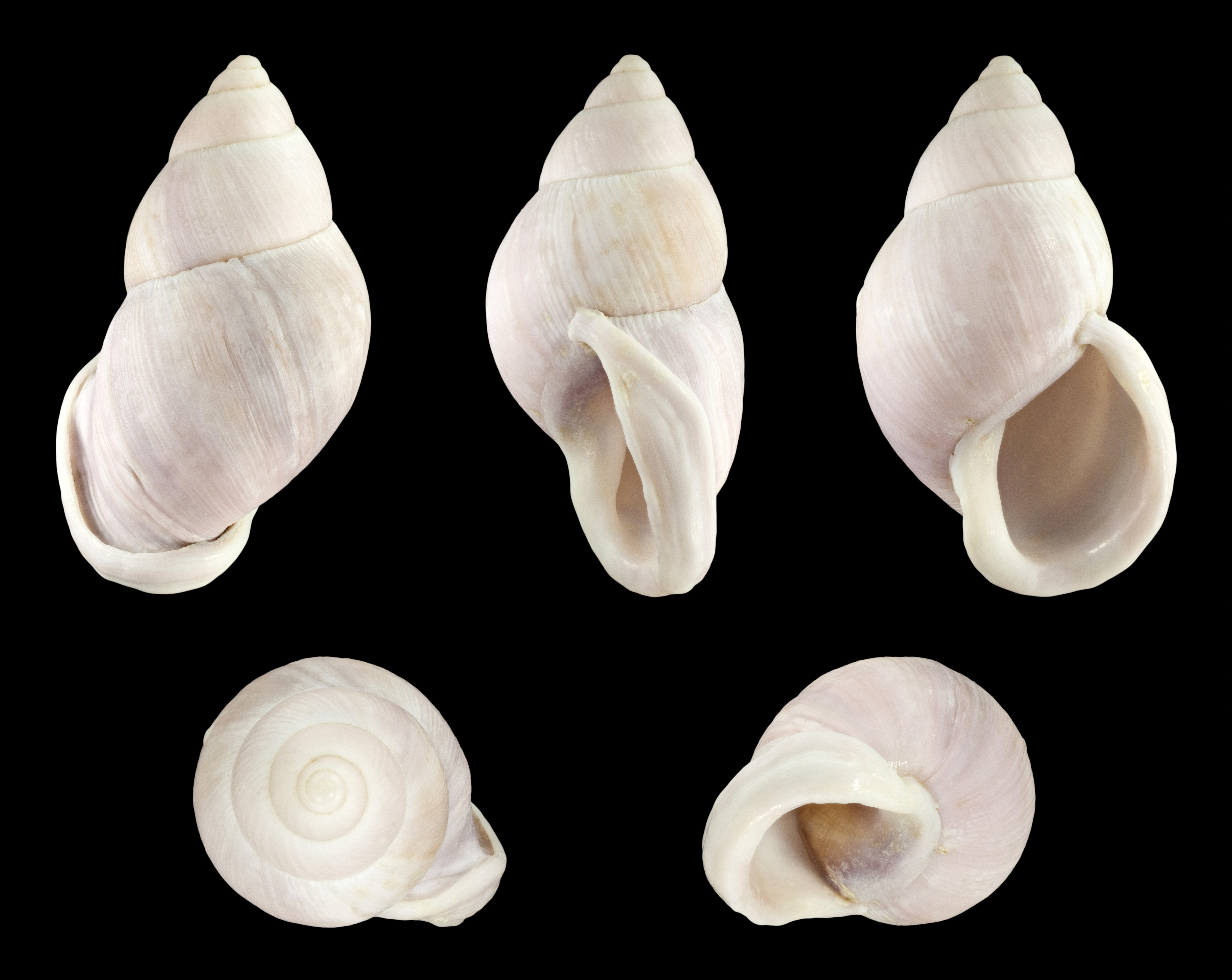 Porphyrobaphe iostoma bilabratus Pilsbry, 1899; Length 6.0 cm; Originating from Libertador Bolivar, Santa Elena Province Ecuador; Shell of own collection, therefore not geocoded.